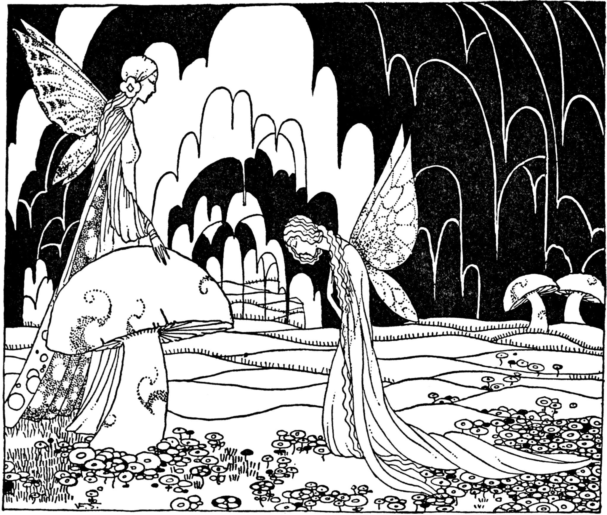 The fairy must give herself up to the queen and lose her power for eight days